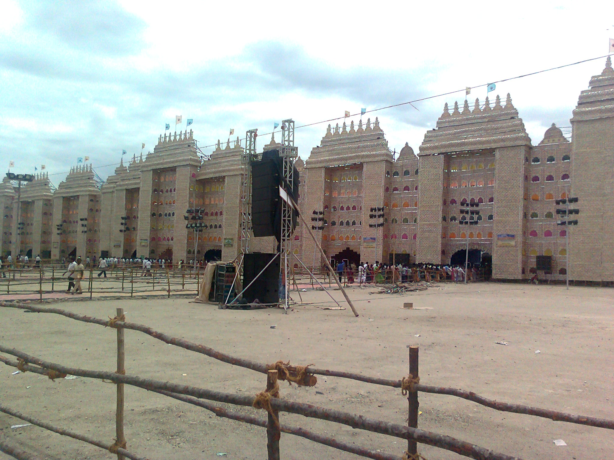 image of world classical tamil conference-2010 coference hall entrance view taken at CODISSIA, coimbatore, tamilnadu.